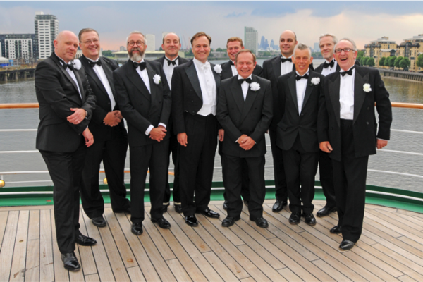 The Pasadena Roof Orchestra - picture from the Arts of St. George in June 2015.